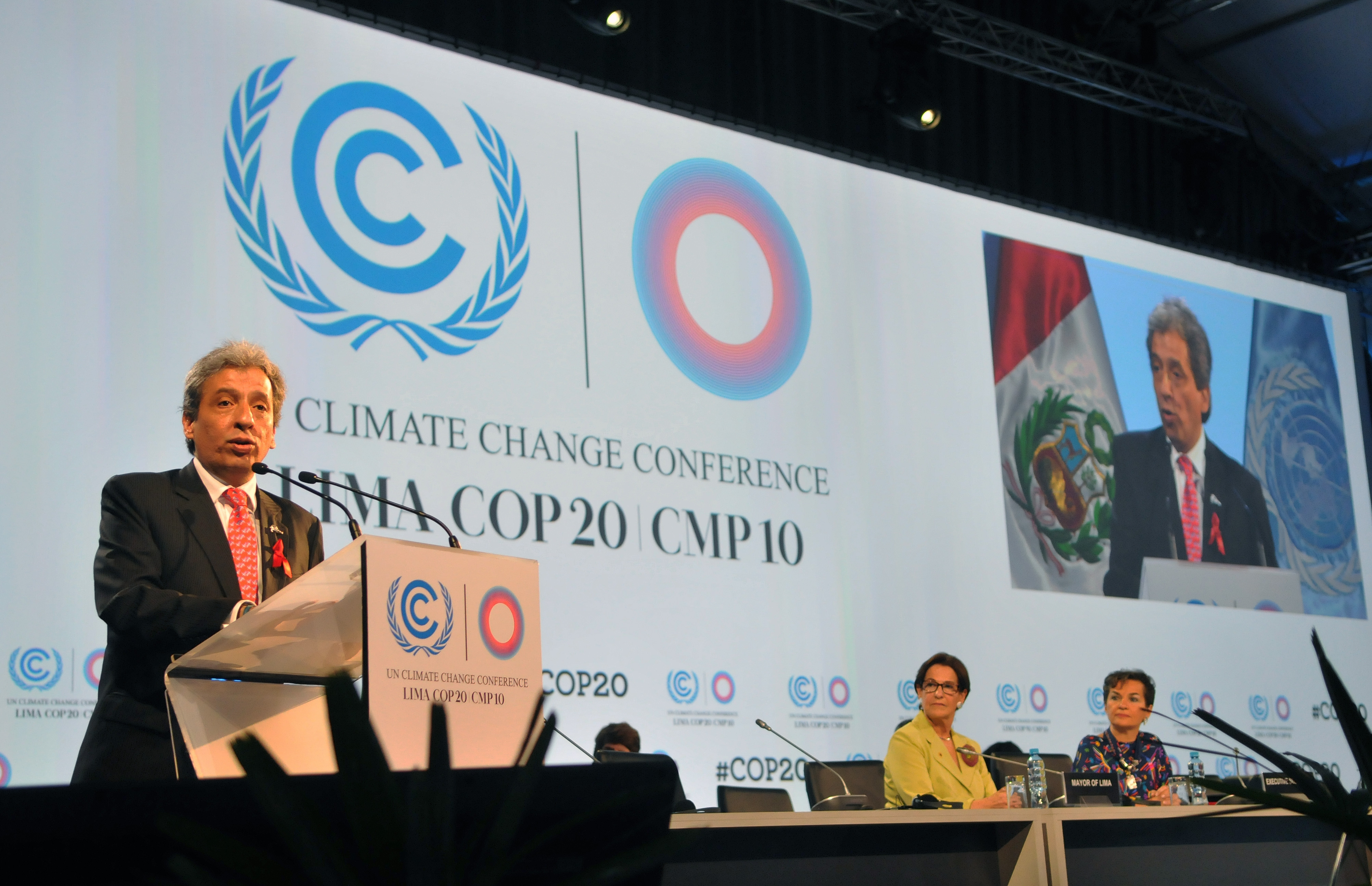 Peruvian Foreign Affairs Minister Reinel (not in picture) attended the opening ceremony of the 2014 United Nations Climate Change Conference